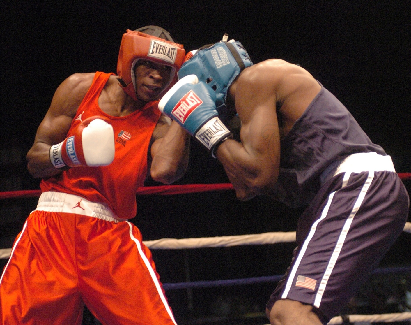 U.S. Army World Class Athlete Program boxer Sgt. 1st Class Christopher Downs of Fort Carson, Colo., wins a 21-11 decision against San Diego's Yathomas Riley in the light heavyweight finale of the 2008 U.S. Olympic Boxing Team Trials Aug. 25 at the George R. Brown Convention Center in Houston, Texas. With the victory, Downs, 32, became the oldest boxer in U.S. Olympic Team history.